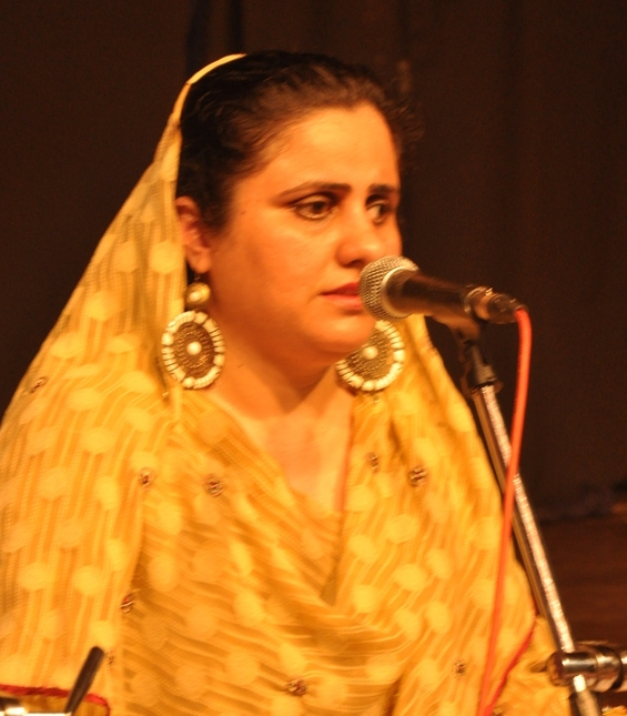 Aliya Rasheed (Urdu: عاليہ رشيد) is a female Pakistani Dhrupad singer.[1] She has trained under the Gundecha Brothers